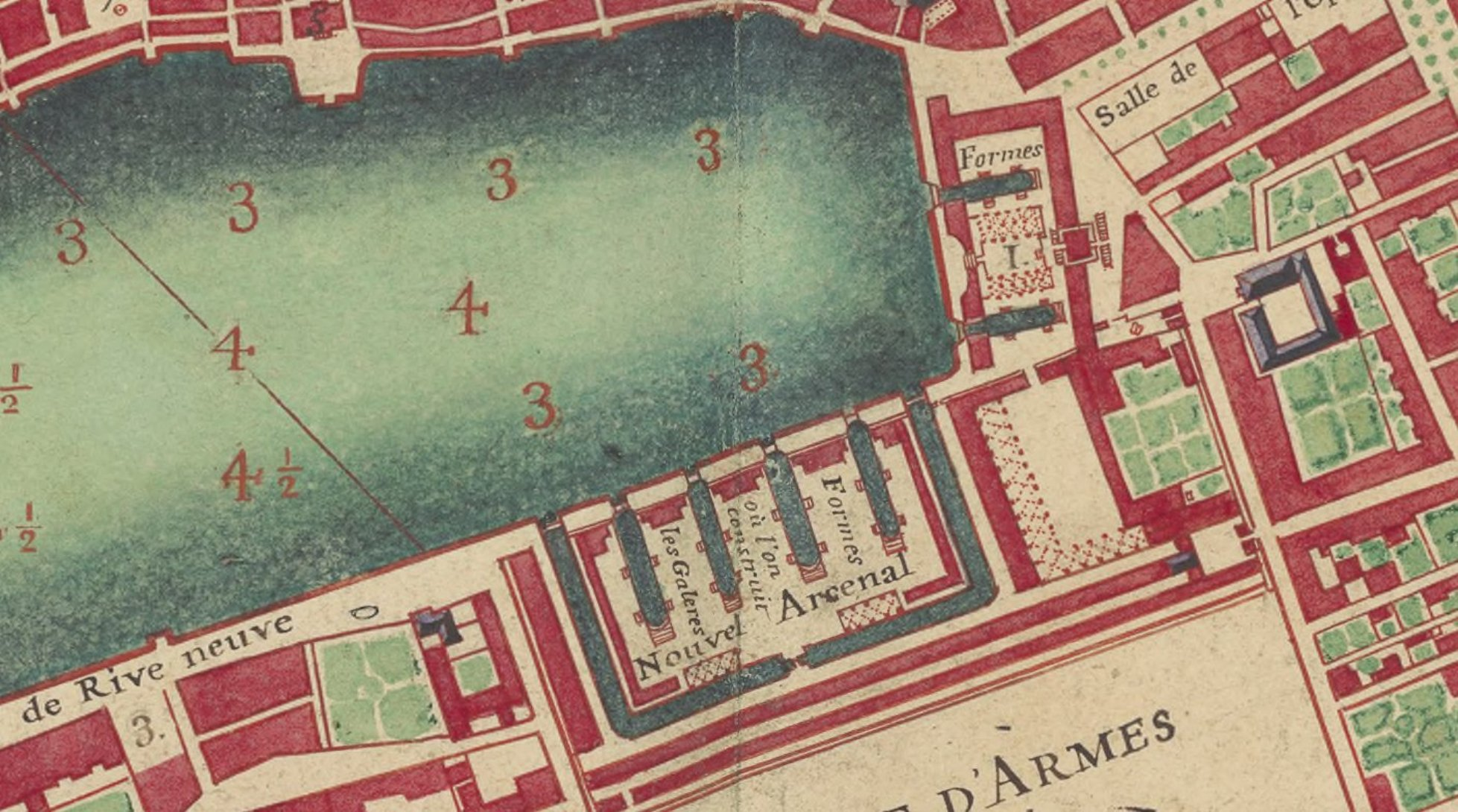 Description of the plan of the port of Marseilles to see the evolution of the arsenal of galleys. The number 1 represents the first arsenal.